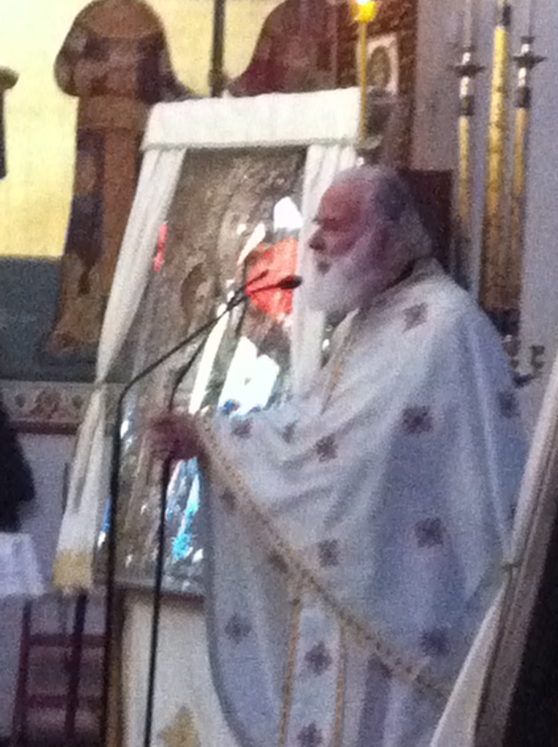 Protopresbyter (Archpriest) Fr. George Metallinos (in Greek π. Γεώργιος Μεταλληνός), Greek theologian, priest, historian, author and professor.